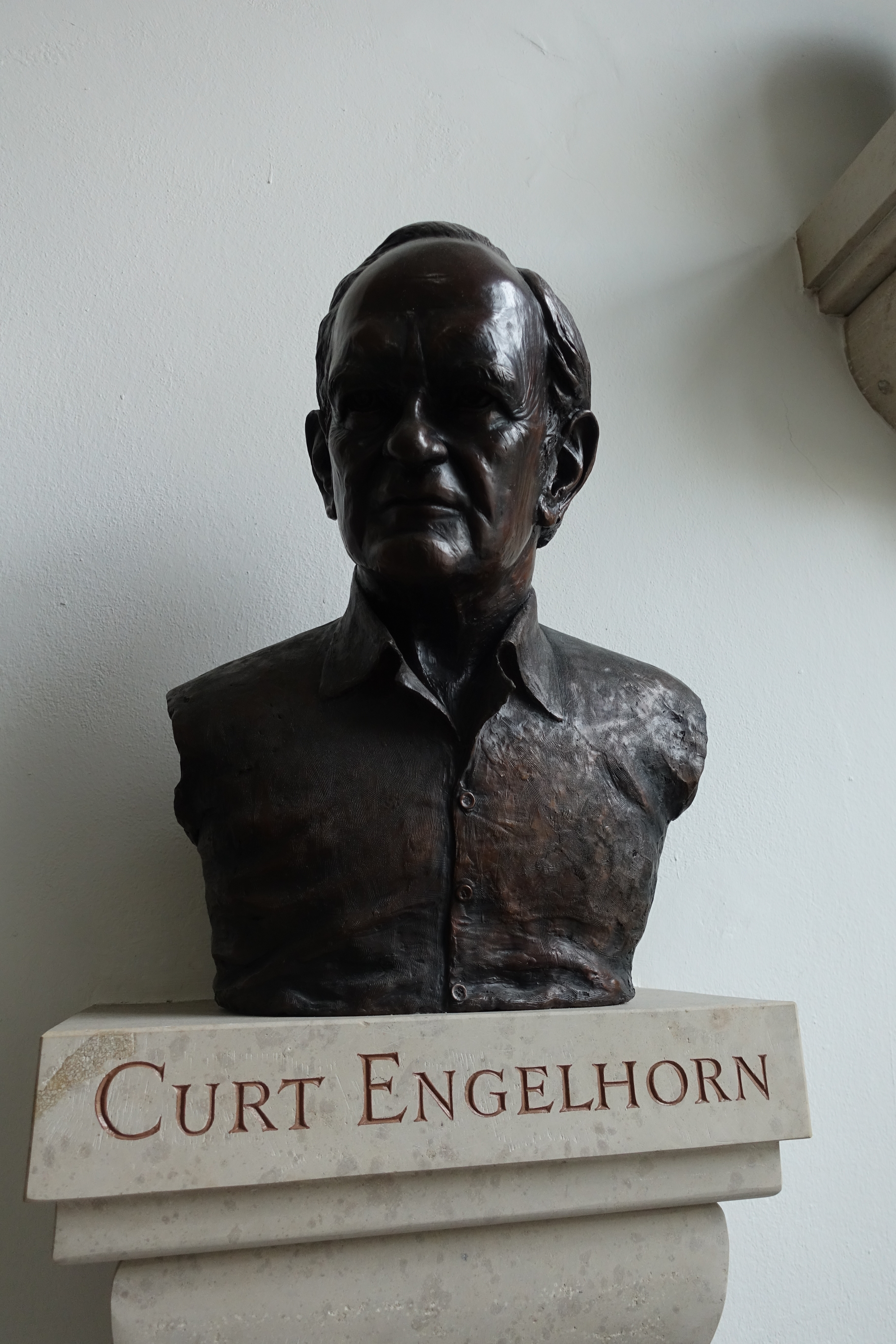 Collections of the Deutsches Museum, Munich, Germany.